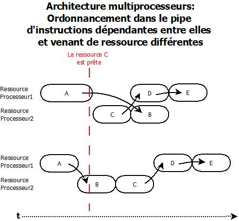 Anomalie causée par ordonancement (pipeline)